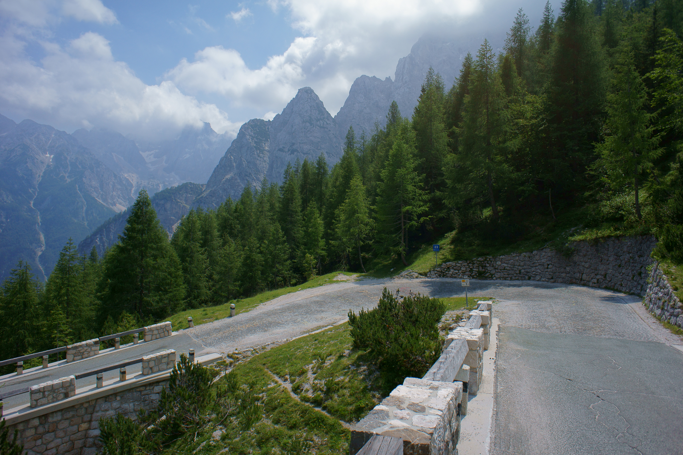 Ascending road to Vršič pass, view to 23rd serpentine at 1539 meters above sea level.